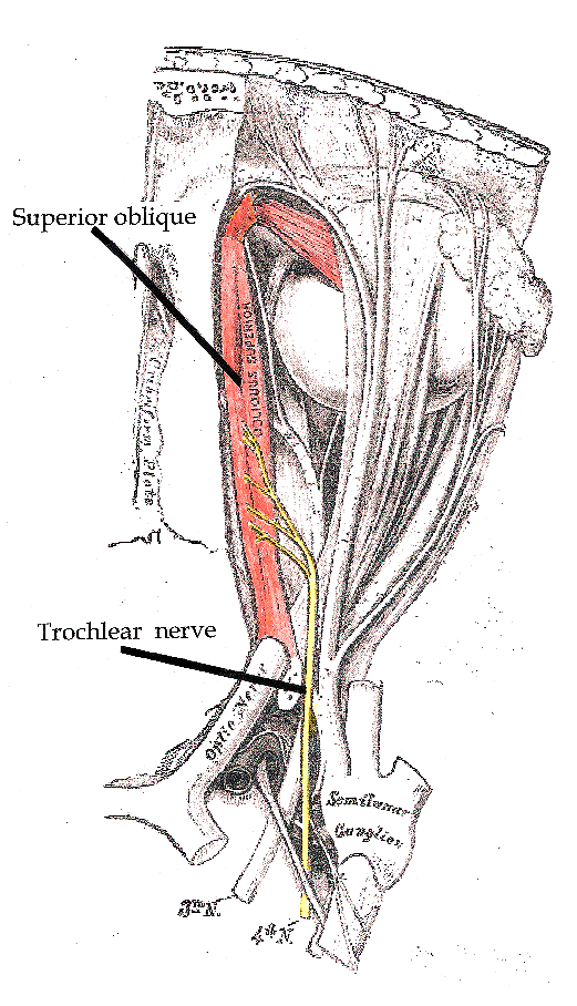 Modified from Wikipedia Image Gray776 to highlight the trochlear nerve.Btarski 18:21, 28 November 2006 (UTC)